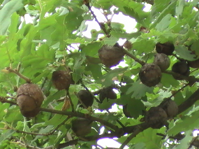 Quercus pubescens in Kričke, Croatia.